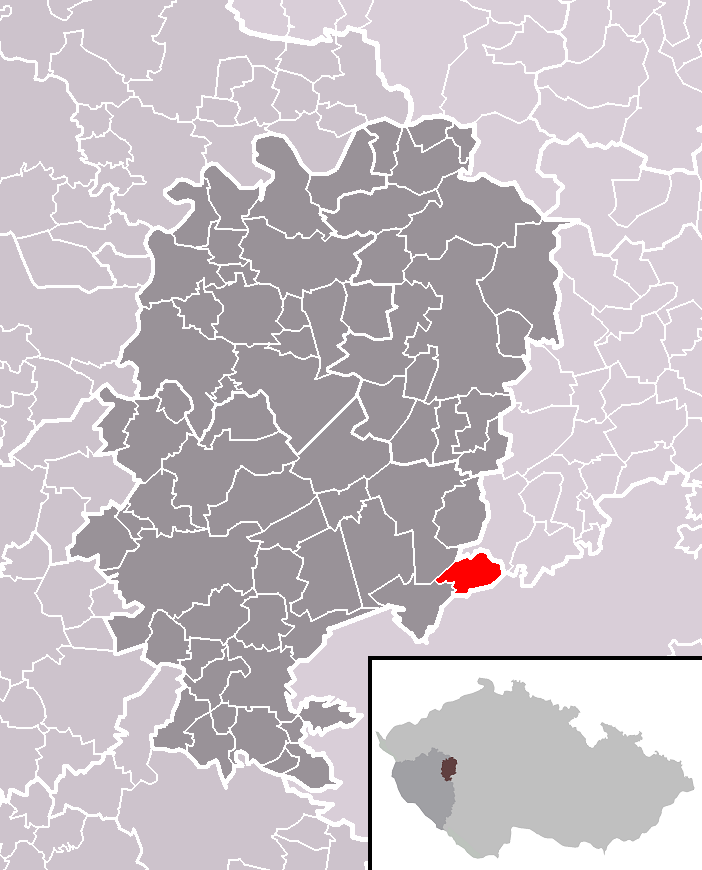 Location of Těně municipality within Rokycany District and within identical administrative area of Rokycany as a Municipality with Extended Competence.